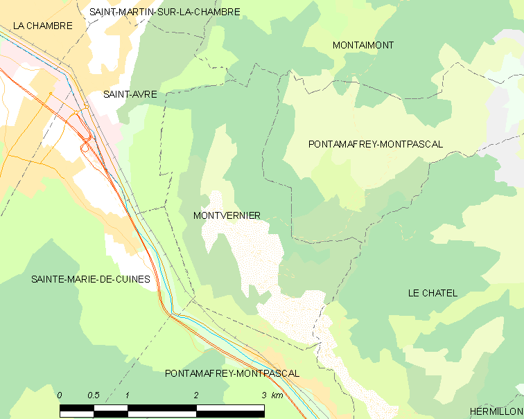 Map of French municipality